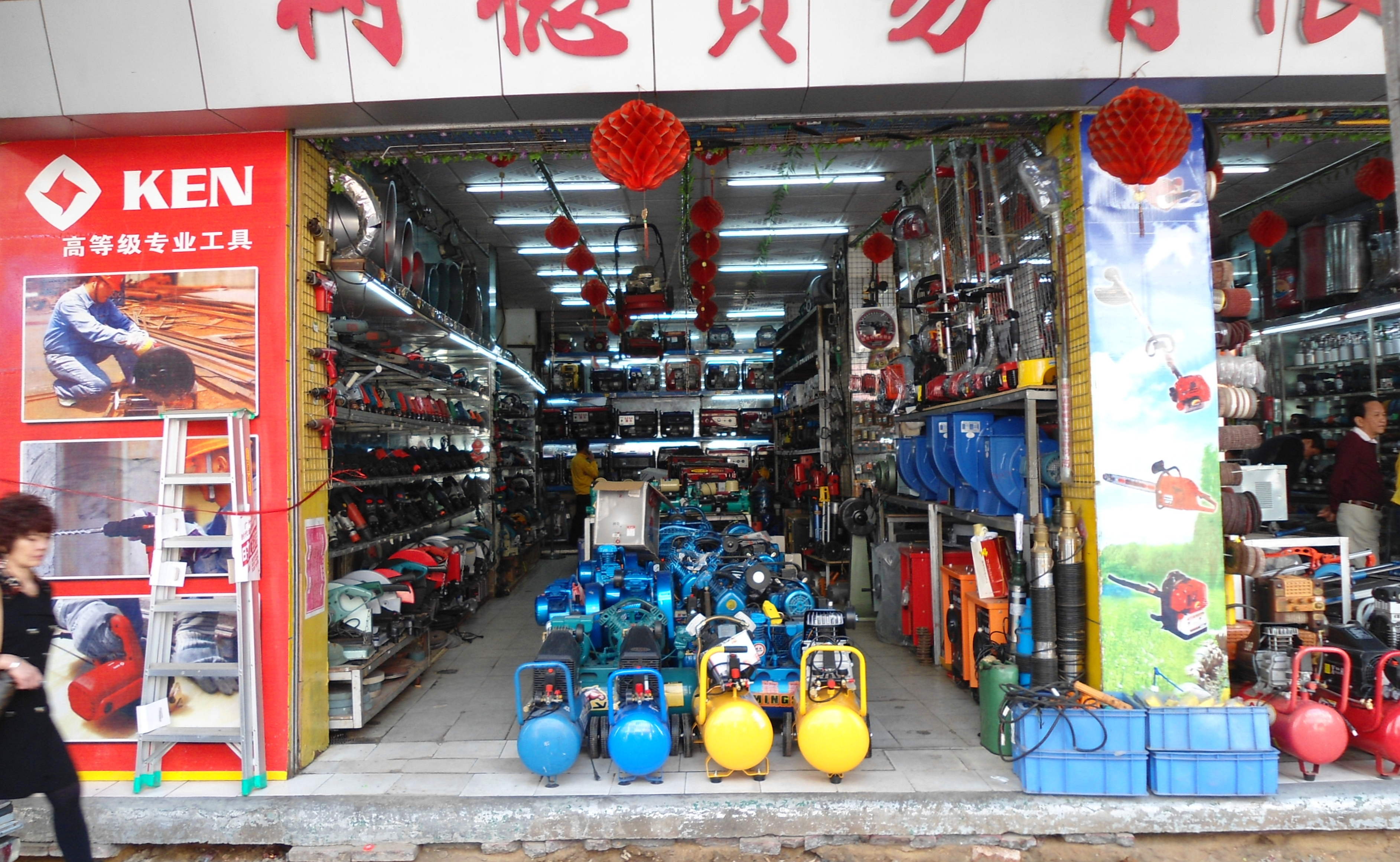 Hardware store in China specializing in generators and power tools, etc. in Haikou, Hainan Province, People's Republic of China